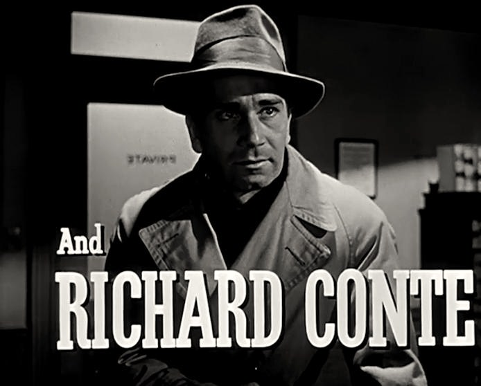 Richard Conte in Cry of the City - trailer (cropped screenshot)